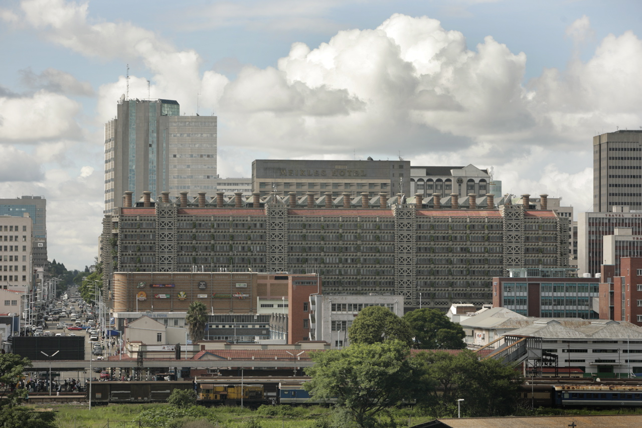 Eastgate Centre, Harare, Zimbabwe (foreground, the building with the large number of chimneys on top)